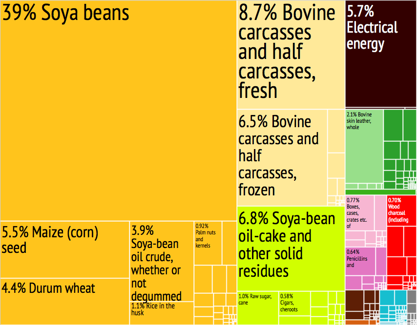 A proportional representation of Paraguay's exports.